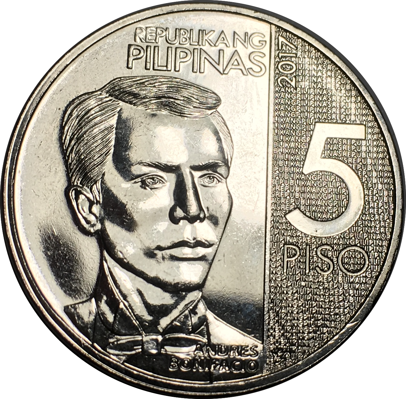 New generation Philippines 5 peso coin